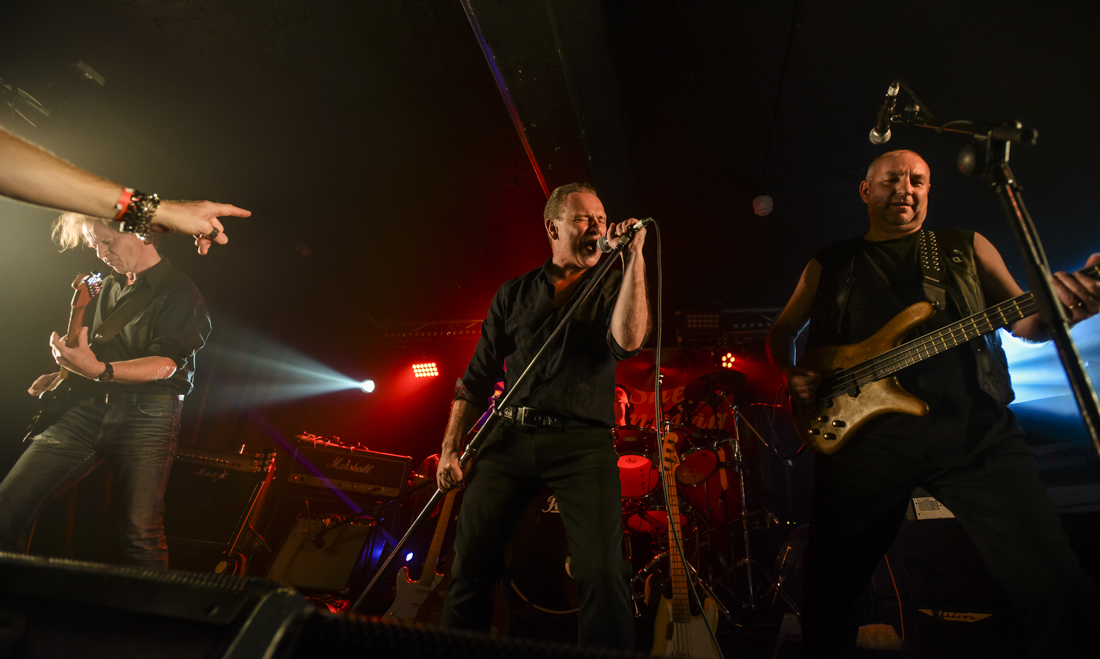 live at Voodoo, Belfast June 2019